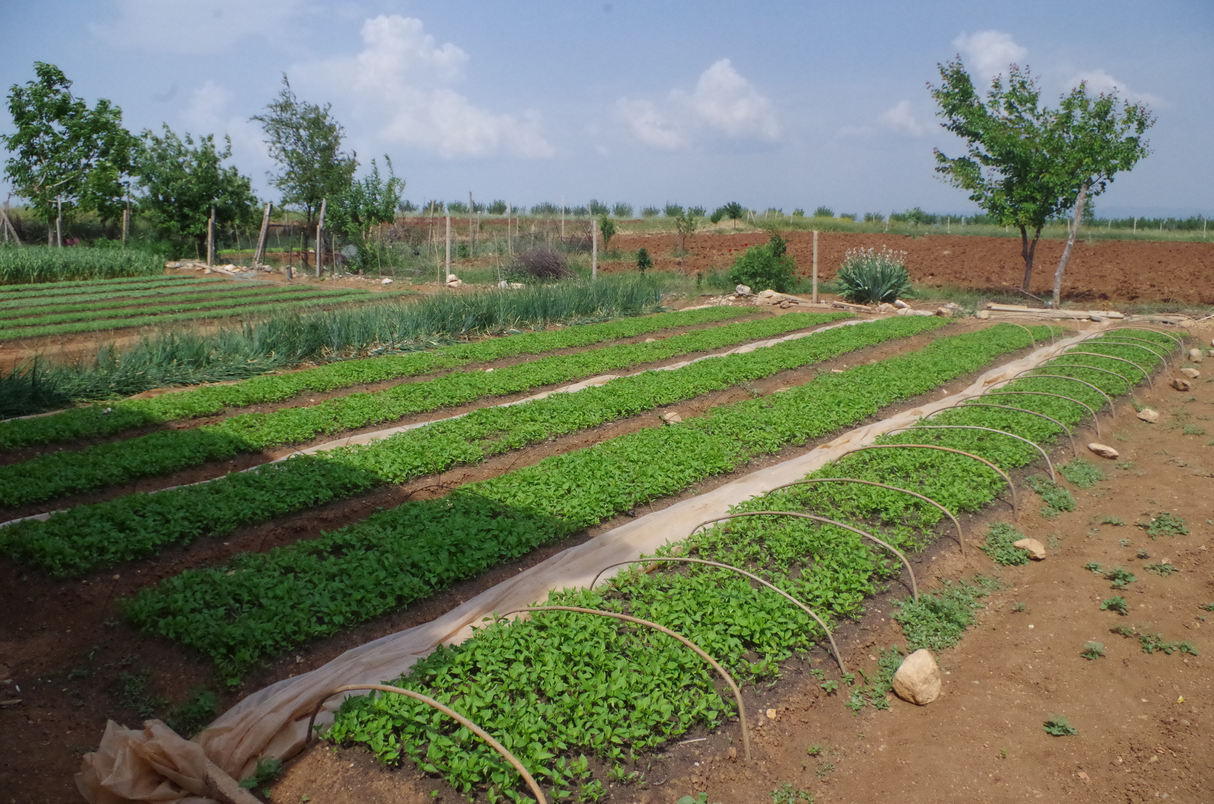 Seedlings in Sirkovo, Macedonia